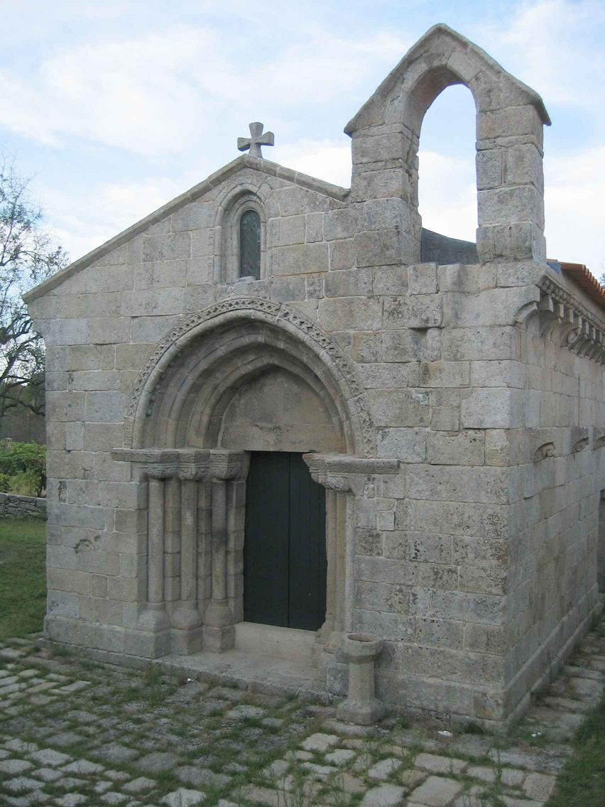 Romanic Church of Boelhe - Penafiel - Portugal